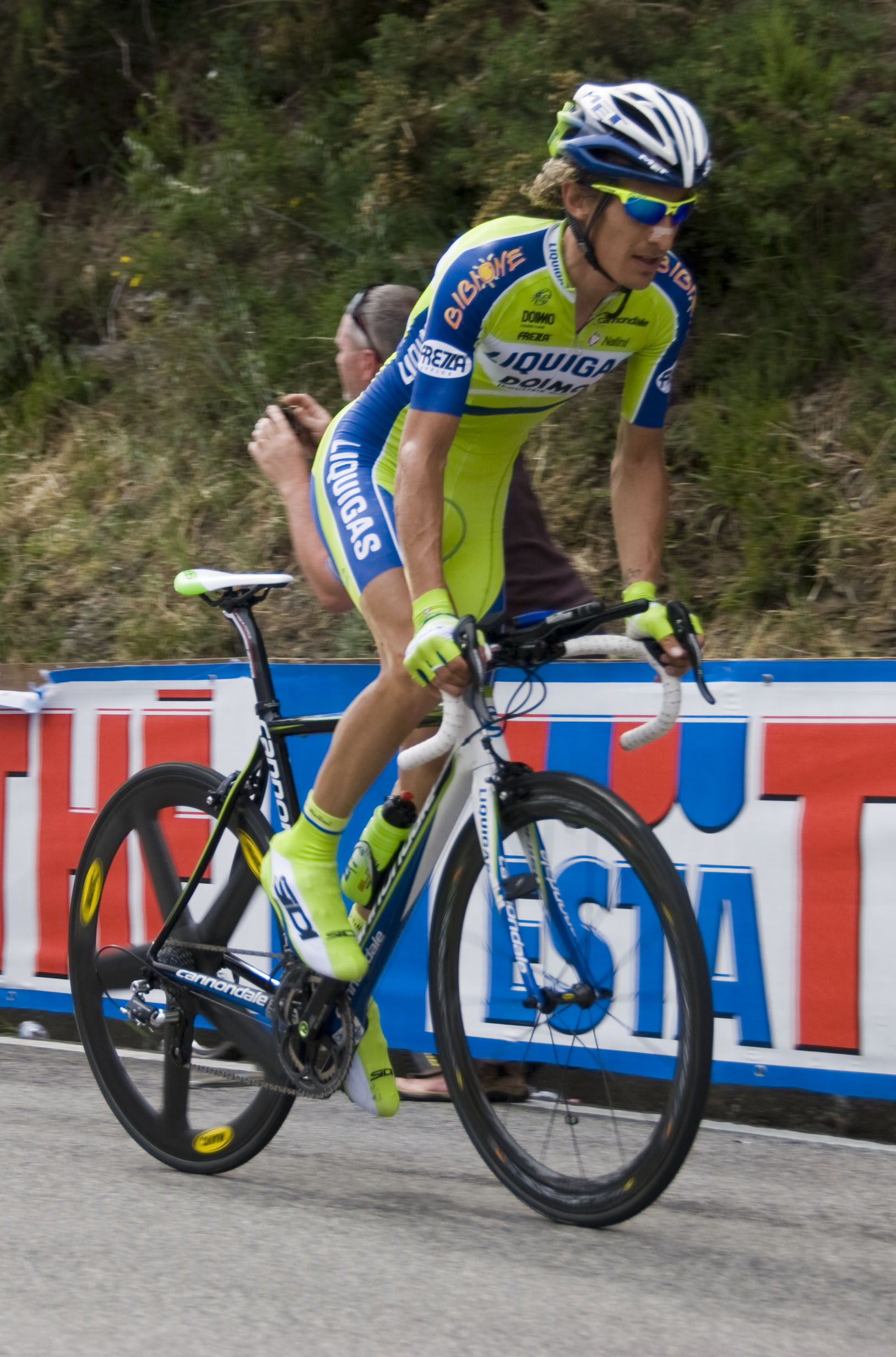 Franco Pellizotti in the Time Trial Stage of Cinque Terre (Giro d'Italia 2009)